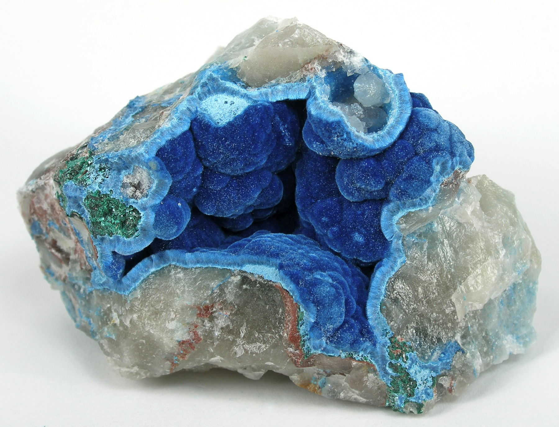 Quartz, Shattuckite Locality: Okenwasi Mine, Kaokoveld Plateau, Kunene Region, Namibia Size: small cabinet, 8.1 x 6.0 x 5.0 cm Shattuckite pocket in quartz Much shattuckite has come out, and often you can get beautiful drusy carpets of the crystals, which look like blue velvet, on thin plates. Sometimes you get nice pockets, but not always of this top quality. This is TOP quality for condition, color intensity, and a rolling 3-dimensional surface inside. It screams out in color, and is one of the best such pockets I have seen in the few years of trickling production out of here. There are really few colors in nature so intense. This vug is nearly 2 inches across, and the crystals within are pristine and protected. Again, if you think you have seen TOP color for this material, i can only say that this piece is another 10% beyond, in color, anything I have seen for sale on a general basis.